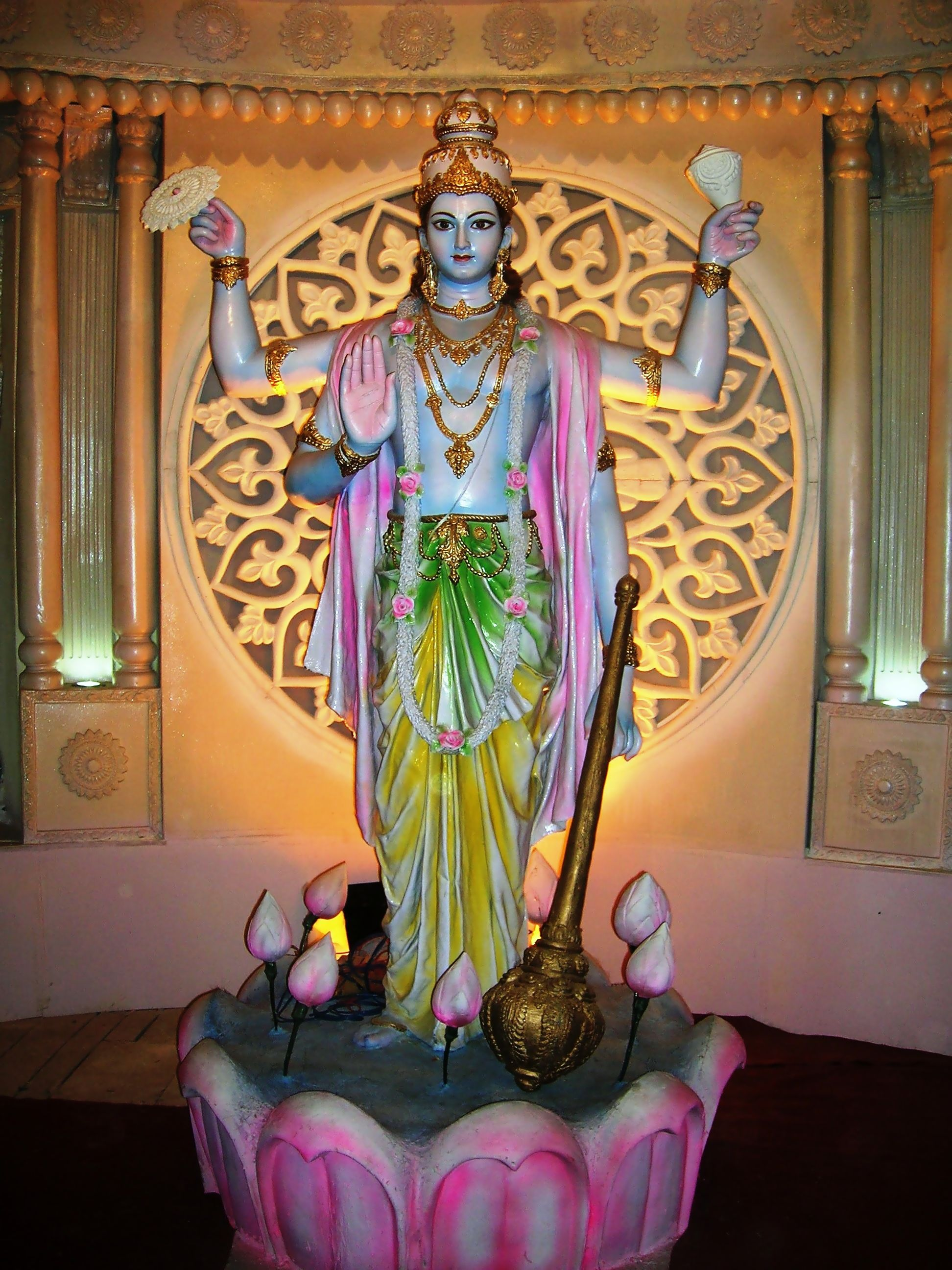 An idol of Lord Vishnu at Kumartuli Park Sarbojanin Durga Puja pandal, North Kolkata, 2010.